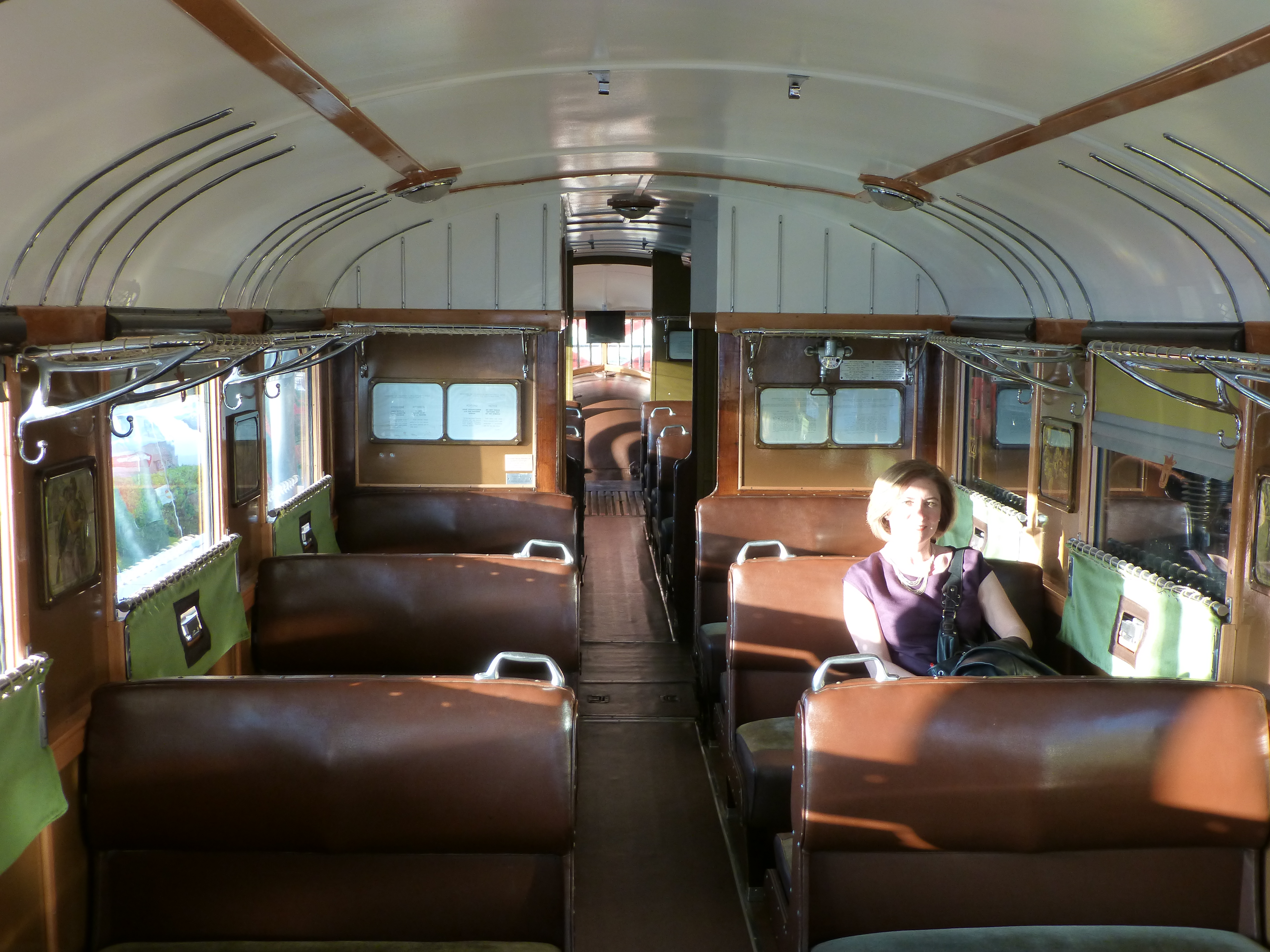 Rahmi M. Koç Museum